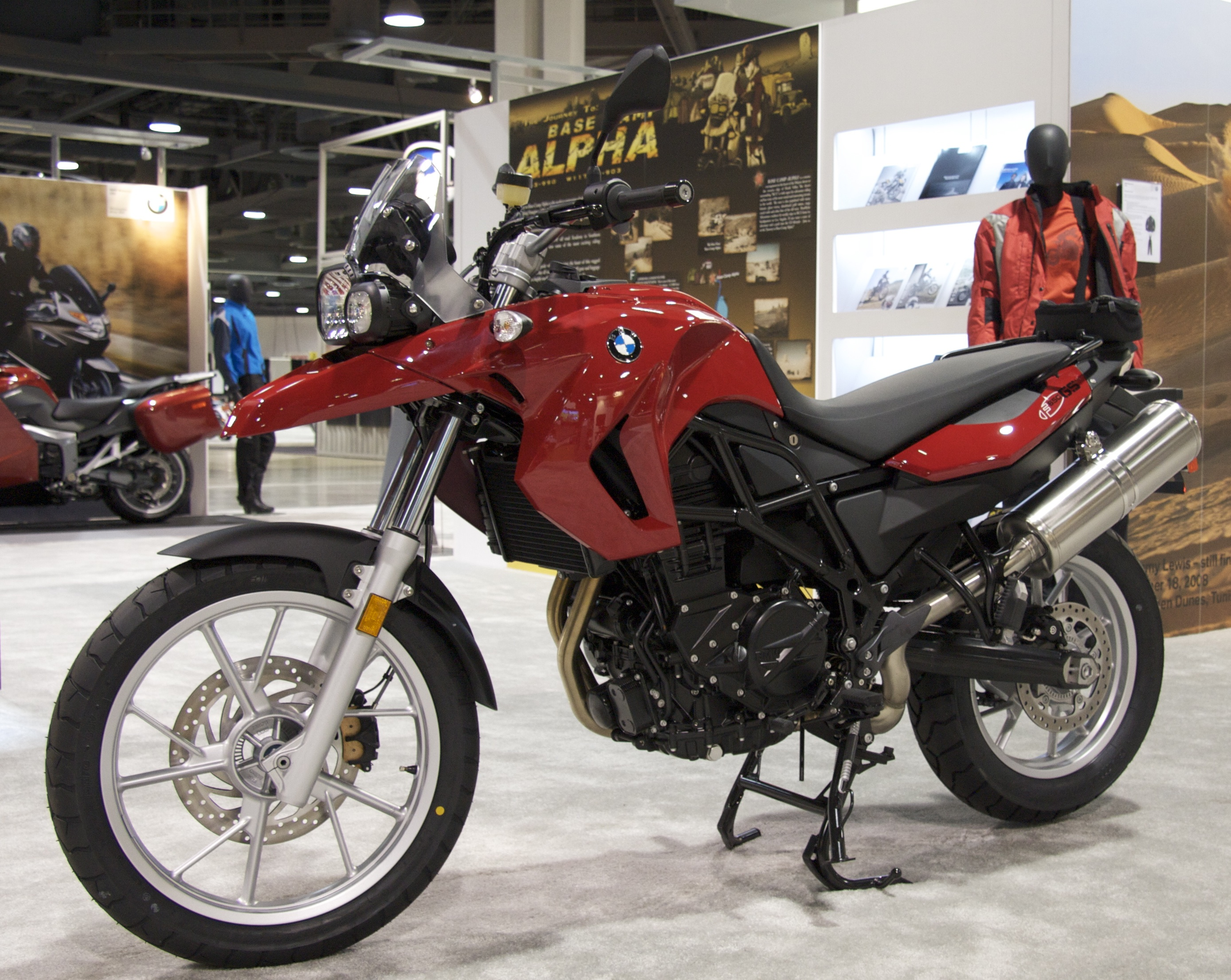 BMW F650GS parallel-twin 2008